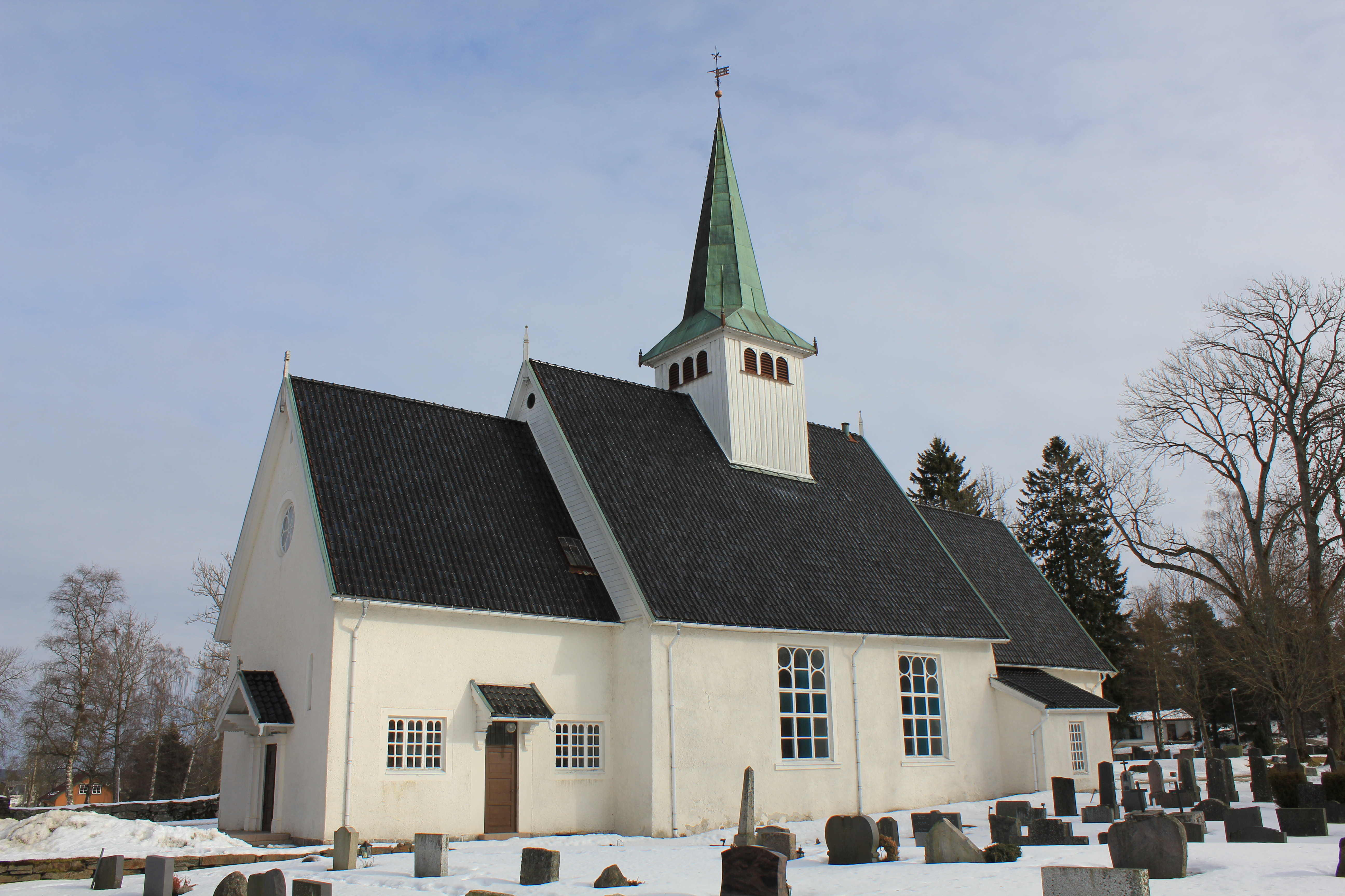 Trøgstad church in Østfold, Norway.